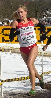 Natasha Wodak competing at the 2013 IAAF World Cross Country Championships